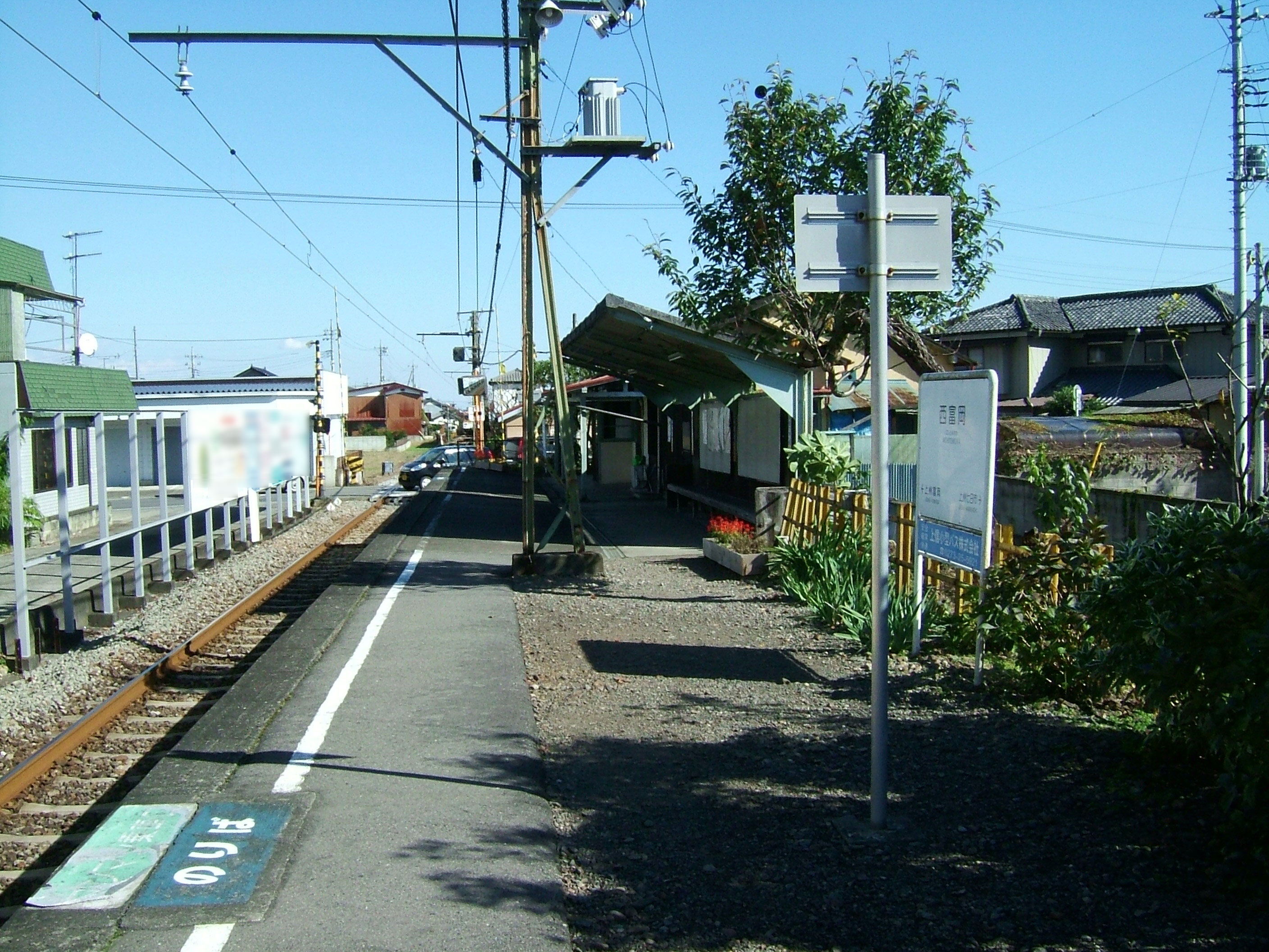 Nishi-Tomioka Station platform (Jōshin Dentetsu Jōshin Line)